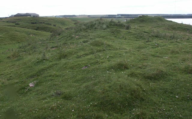 Castle Hill, the mound that is all that is left of the Castle of Rattray